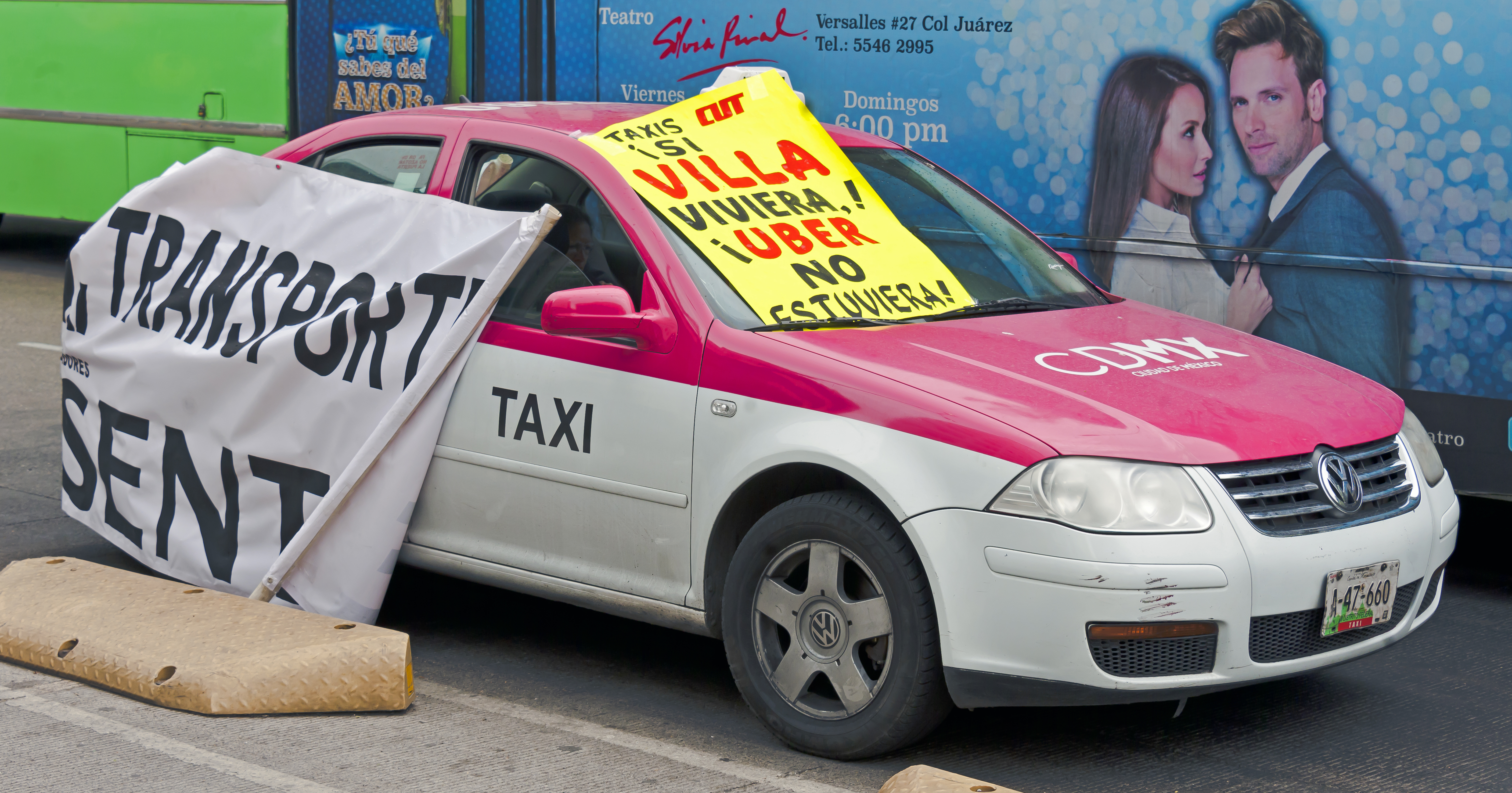 Taxicab with anti-Uber banners at a protest in Mexico City, translated as "if Villa lived [presumably Pancho Villa], Uber wouldn't be here"